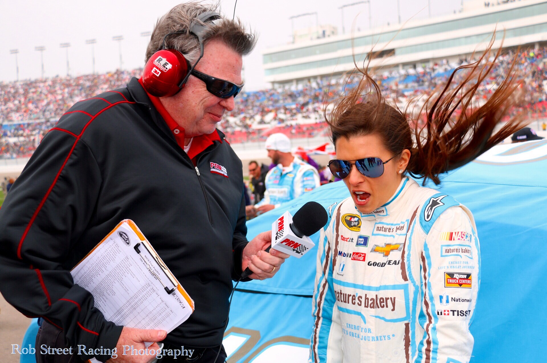 Danica Patrick-Las Vegas Motor Speedway-2016